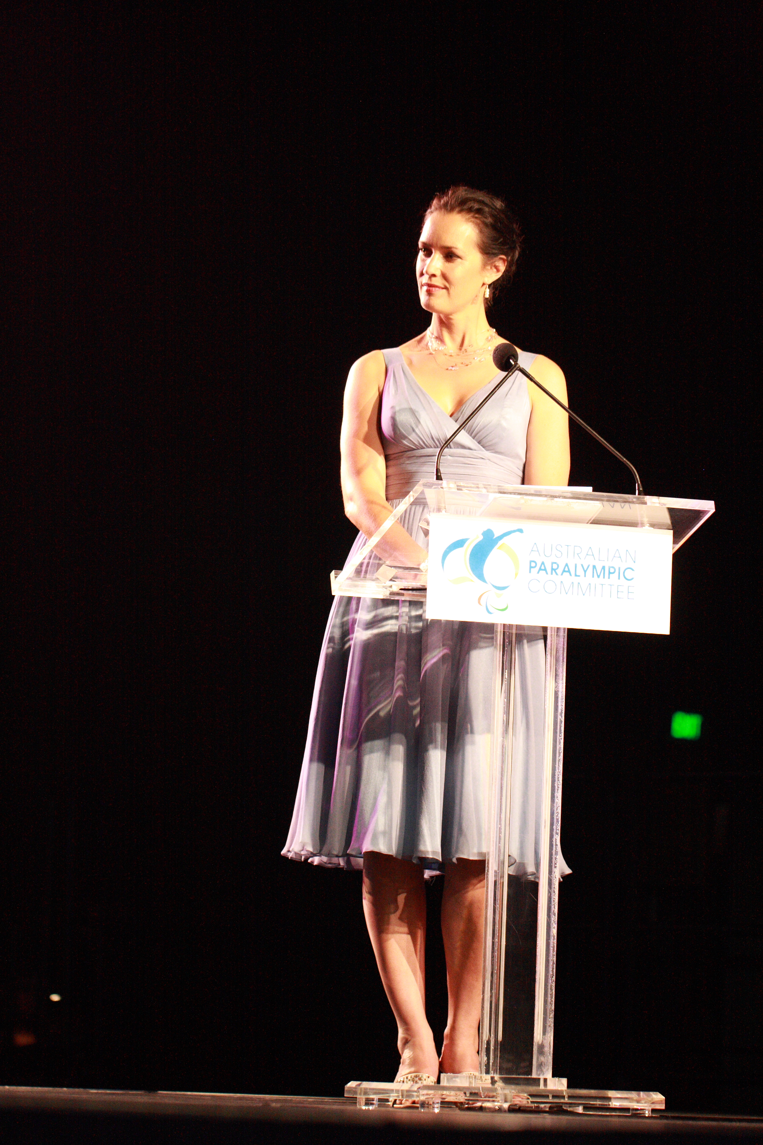 Stephanie Brantz at Australian Paralympian of the Year 2012 ceremony at the Hordern Pavilion, Sydney, Australia.